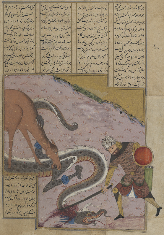 Rostam killing the dragon. Illustrated manuscript of the Shahnameh, painting by Nasr al-Sultani, c.1430. Oxford, Bodleian Library, MS Ouseley Add. 176, fol. 68v